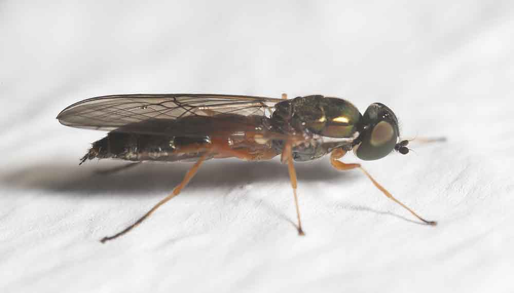 Sargus bipunctatus, f. Picture taken in Stuttgart, Germany. Thanks to the members of Entomologie.de for the identification.